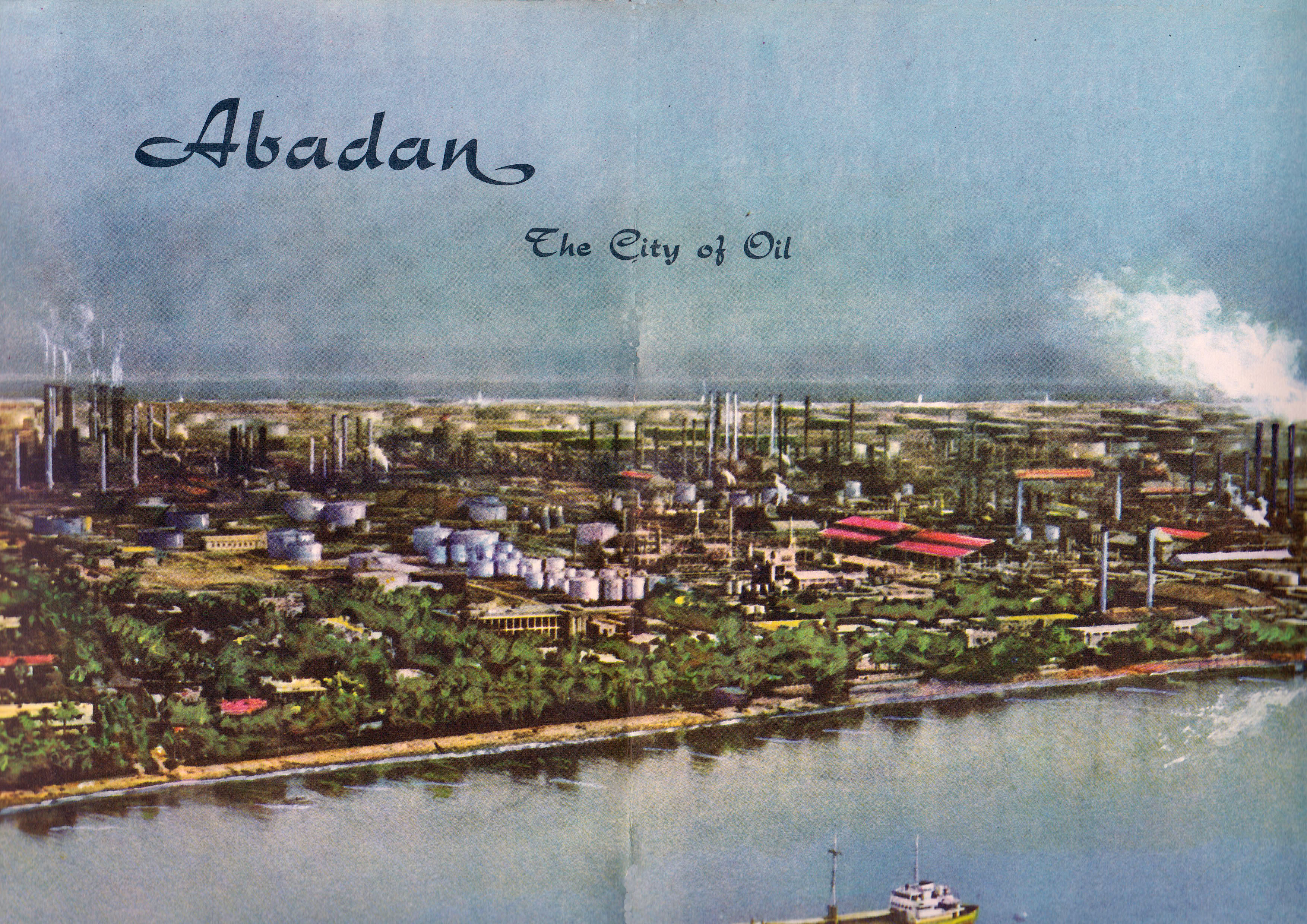 A view over the Abadan city and refinery